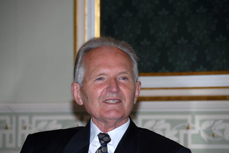 Jože Toporišič, Faculty of Arts, University of Ljubljana, Slovenia